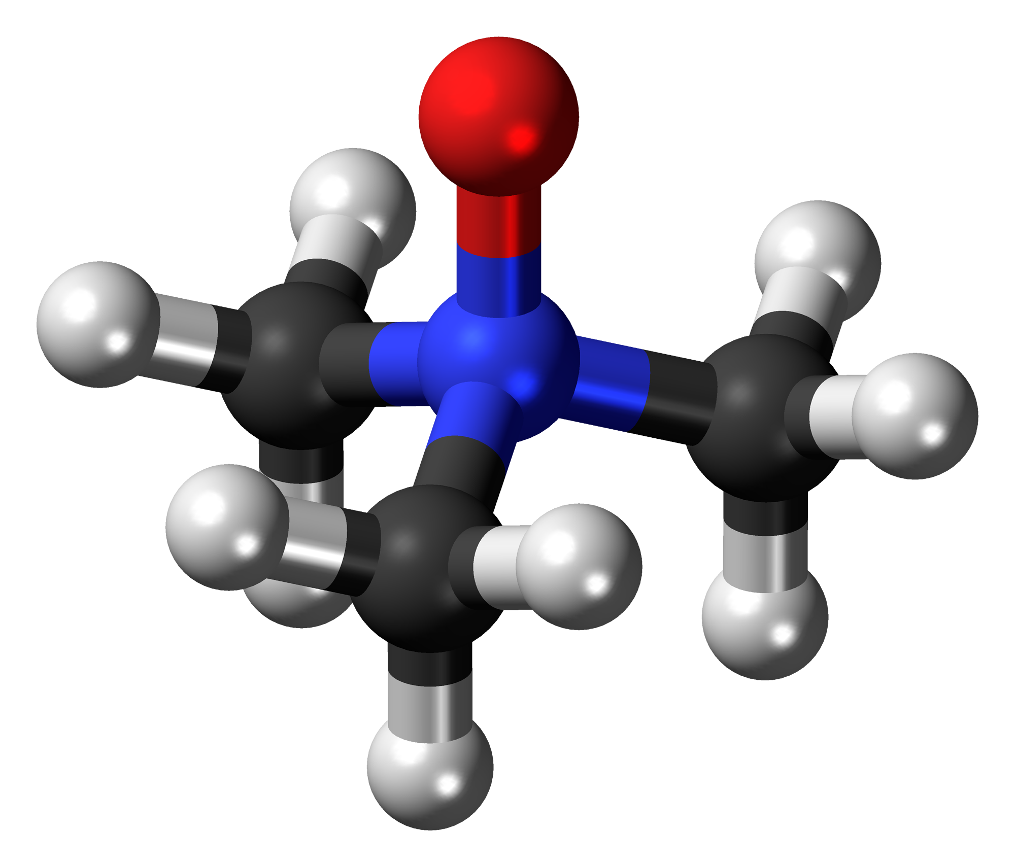 Ball-and-stick model of the trimethylamine N-oxide molecule, an amine oxide. Colour code: Carbon, C: black Hydrogen, H: white Oxygen, O: red Nitrogen, N: blue